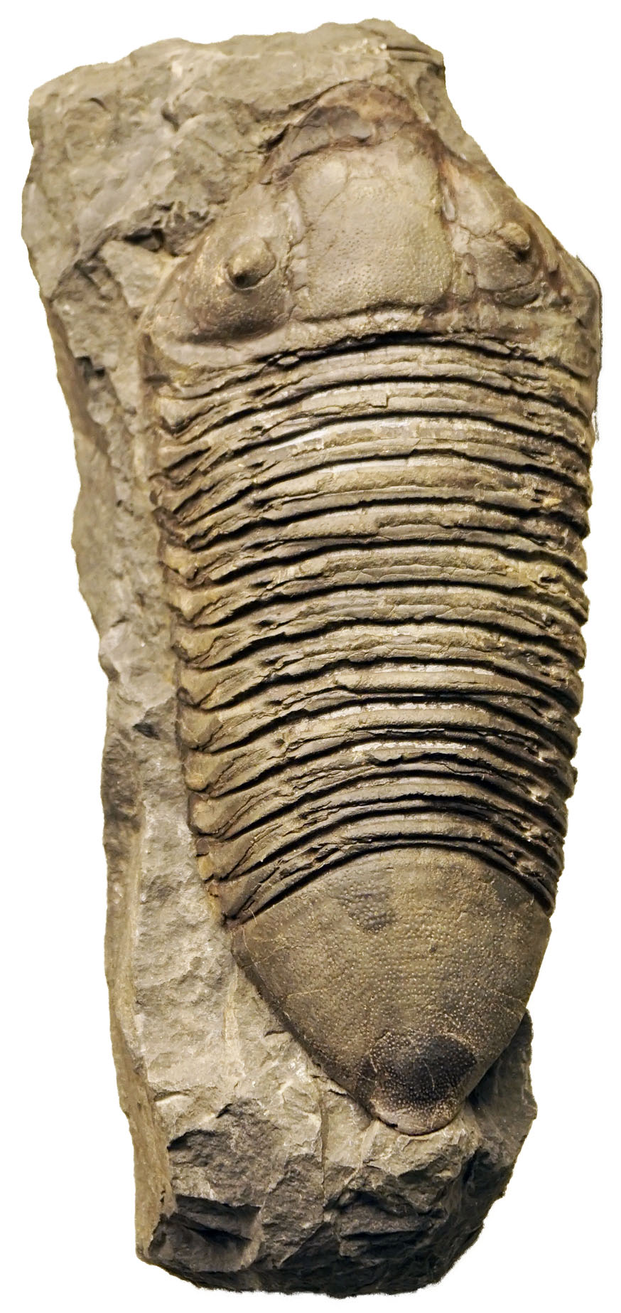 Dipleura dekayi fossil in Augsburg Naturmuseum.This photograph was taken with a Sony ILCE-5000